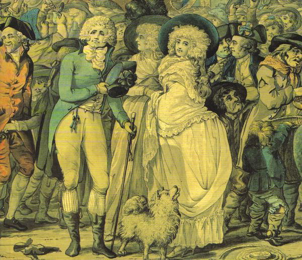 Georgiana Cavendish, Duchess of Devonshire and her sister Viscountess Duncannon (later Countess of Bessborough) with Lord John Townshend in Westminster for either the British general election of 1784 or the by-election of 1788.